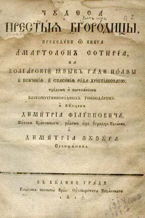 Book cover of Joakim Karchovski - "The Wonders of the Holy Virgin translated from Amartolon Soteria into Bulgarian" (1817)